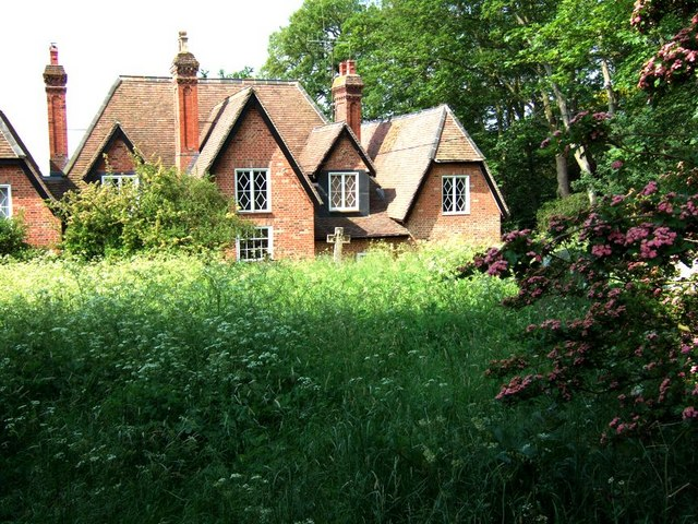 House and churchyard, Battlesden